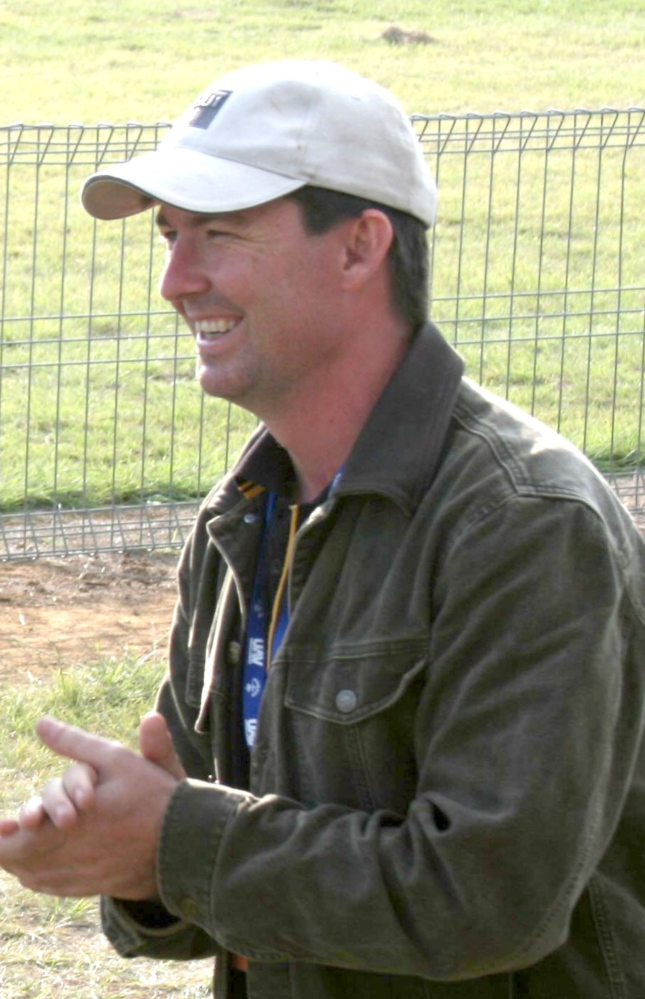 Professor Rod Walker at the prize giving ceremony of the 2008 UAV Challenge